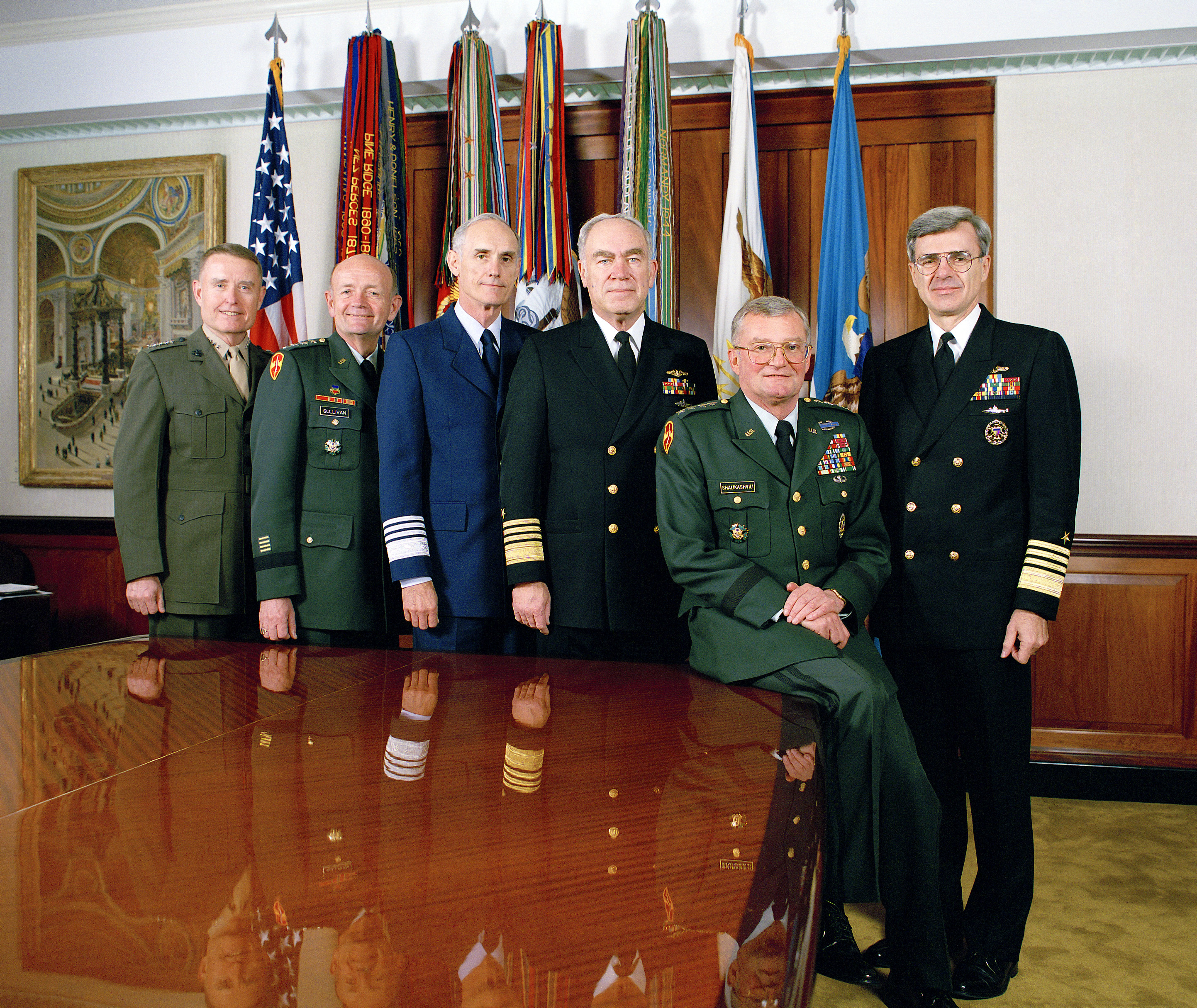 This is an official photograph of the Joint Chiefs of Staff taken in the Pentagon on April 11, 1994. Shows (left to right): U.S. Marine Corps Gen. Carl E. Mundy, Commandant of the Marine Corps; U.S. Army Gen. Gordon R. Sullivan, Chief of Staff, US Army; U.S. Air Force Gen. Merrill A. McPeak, Chief of Staff, U.S. Air Force; U.S. Navy Adm. Frank B. Kelso, II, Chief of Naval Operations; U.S. Army Gen. John M. D. Shalikashvili, Chairman of the Joint Chiefs of Staff; and U.S. Navy Adm. William A. Owens, Vice Chairman of the Joint Chiefs of Staff.